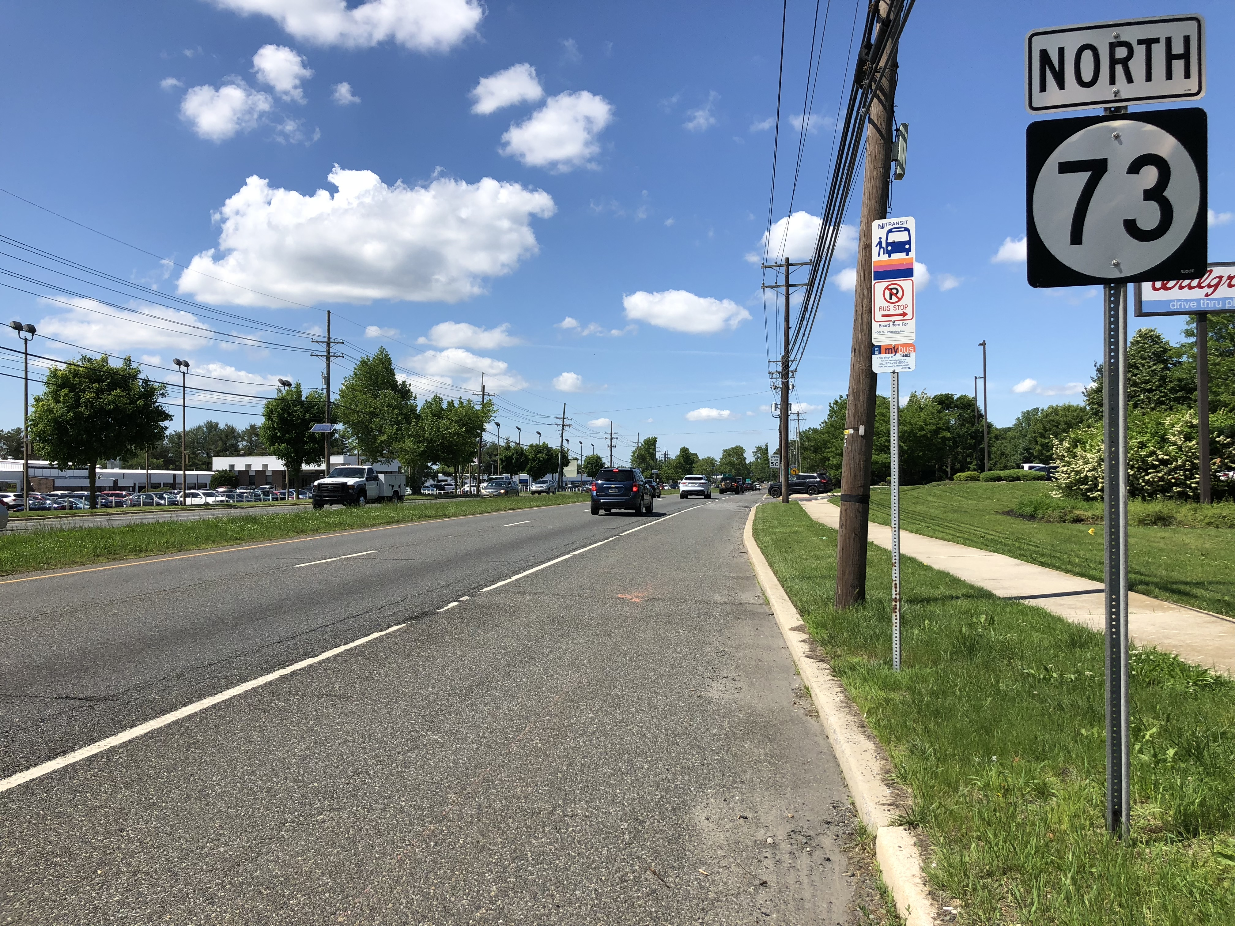 View north along New Jersey State Route 73 at Brick Road in Evesham Township, Burlington County, New Jersey